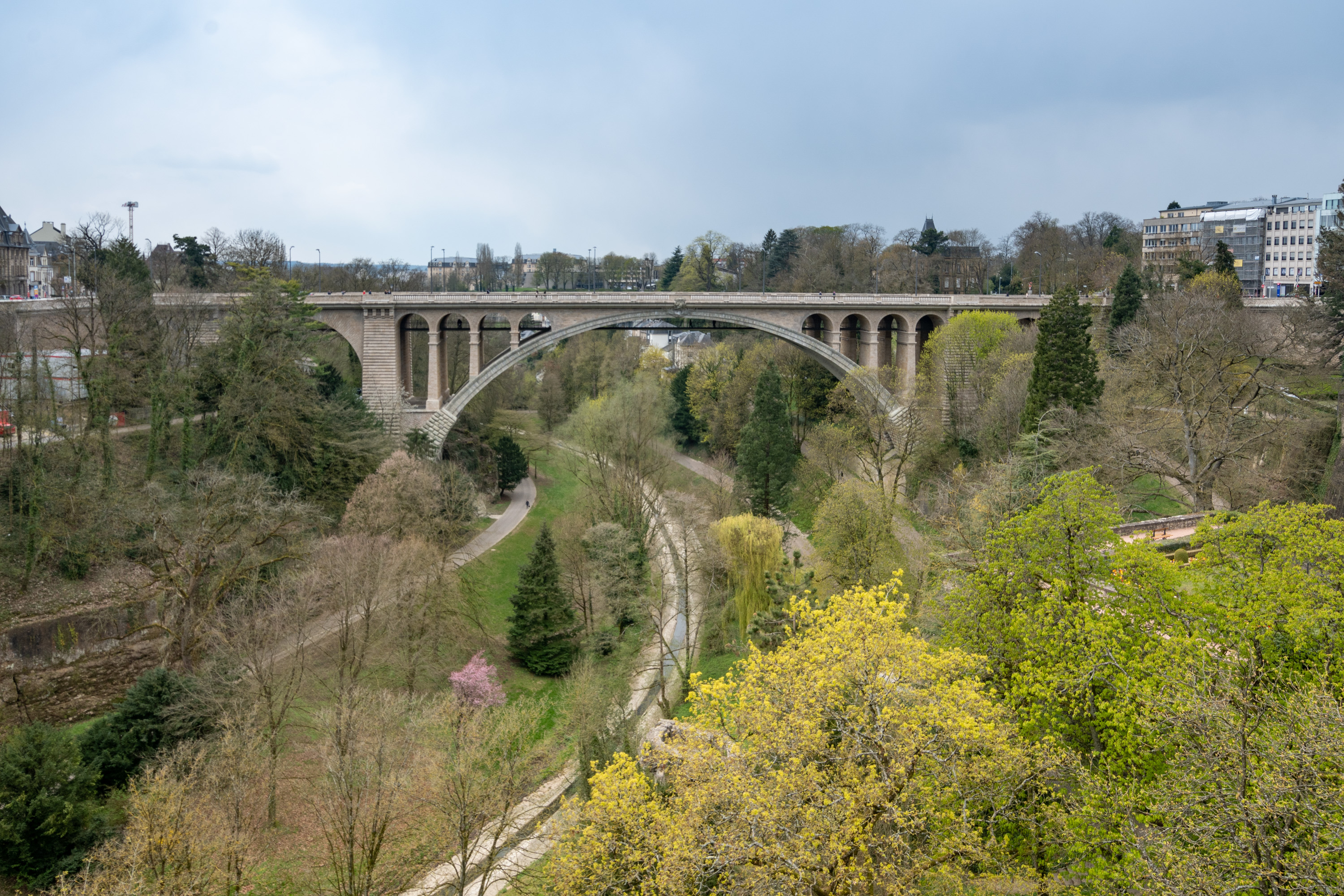 Adolphe bridge and Pétrusse valley, Luxembourg City, Luxembourg. Taken 13 April 2019.